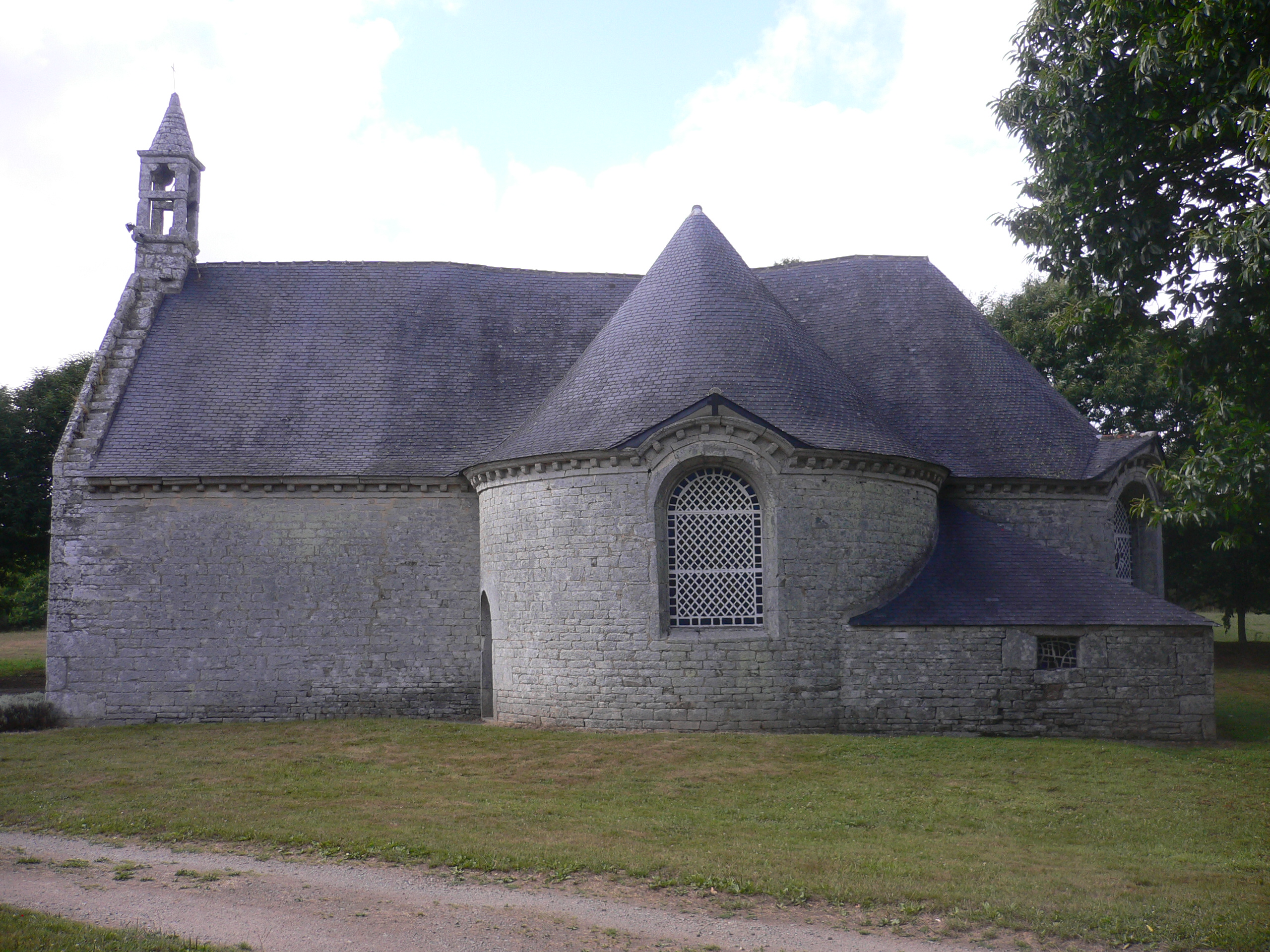 chapel Saint Cado in Bannalec, Brittany